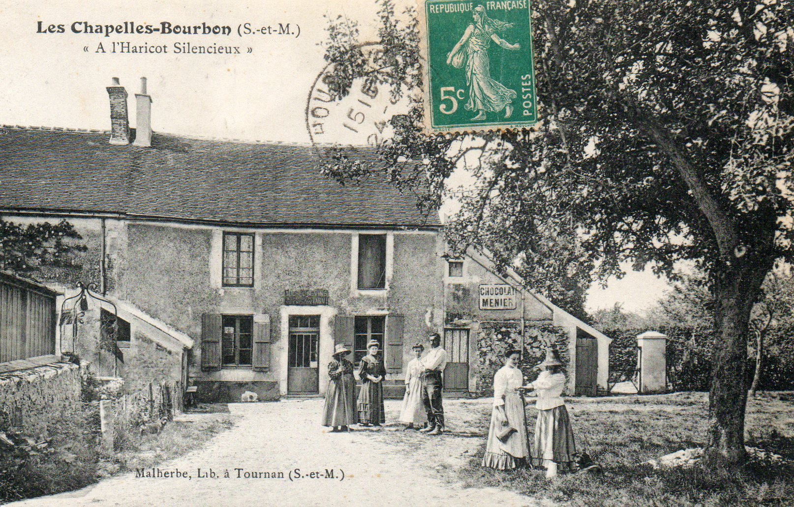 Les Chapelles-Bourbon - Inn